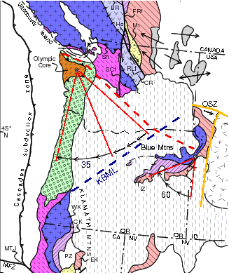 Illustration of paleo-magnetic rotation of Oregon.